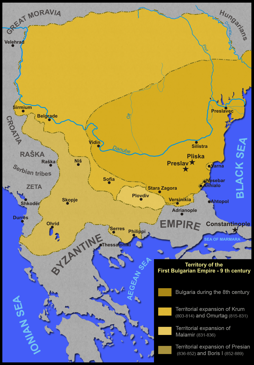 Territory of the First Bulgarian Empire - 9 th century